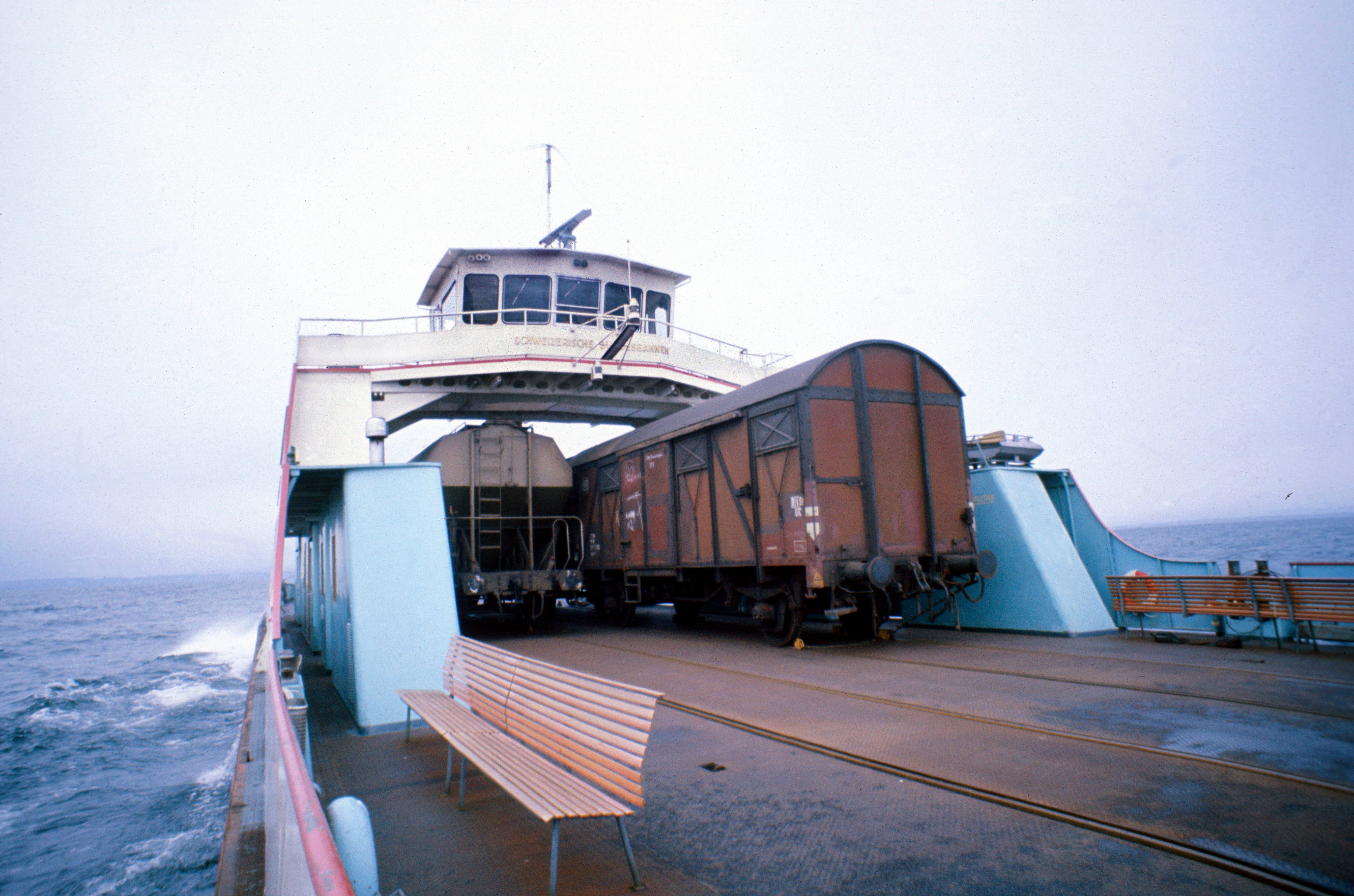 Train ferry "Rorschach" on Lake Constance, built by Bodanwerft Kressbronn for the Swiss Federal Railways. After train ferry service on Lake Constance was discontinued in 1976, the ferry was converted to the German-flagged ferry "Friedrichshafen" for passengers and automobiles.